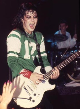 Taken by Norwegian fan in the audience at an 80's concert. Photography was allowed, and great pictures were taken!